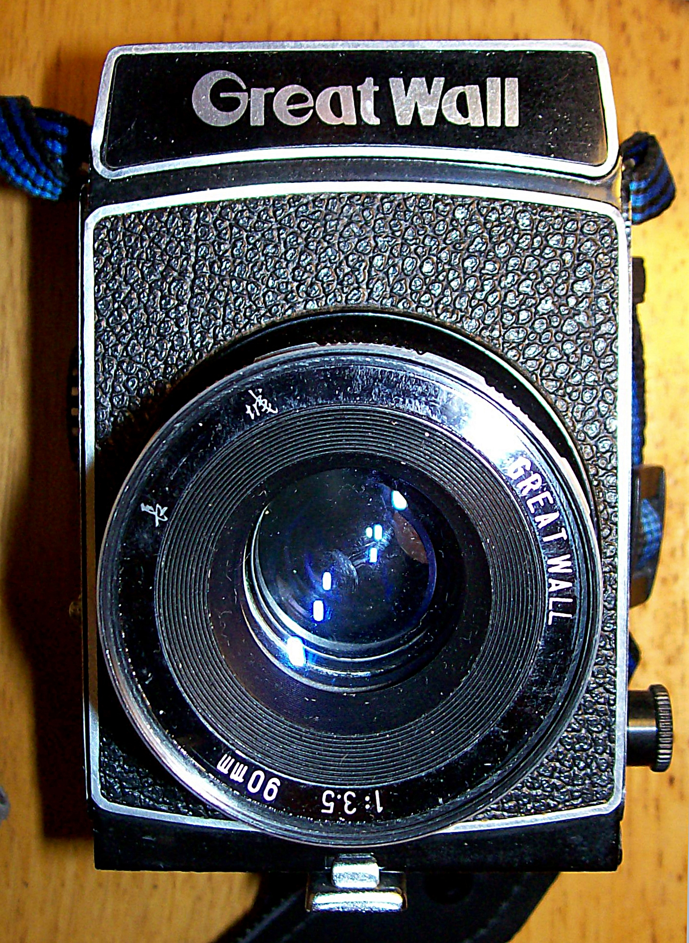 Great Wall medium format SLR with 90mm/3.5 Tessar type lens 长城中幅单反照相机 90毫米 3.5 天塞式镜头